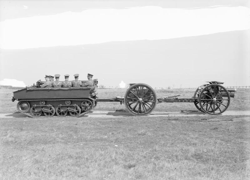 BRITISH MILITARY VEHICLES 1918-1939 Dragon, Light Artillery Tractor Mk.II towing a 4.5 inch howitzer.